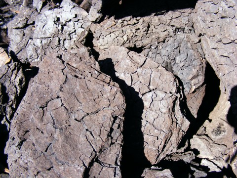 Free and Public Domain Photos – Black Coal – Lignite More photos and details about possible copyright or licensing restrictions here: Full Size Up to 3072 x 2304 pixels Information Regarding Copyright